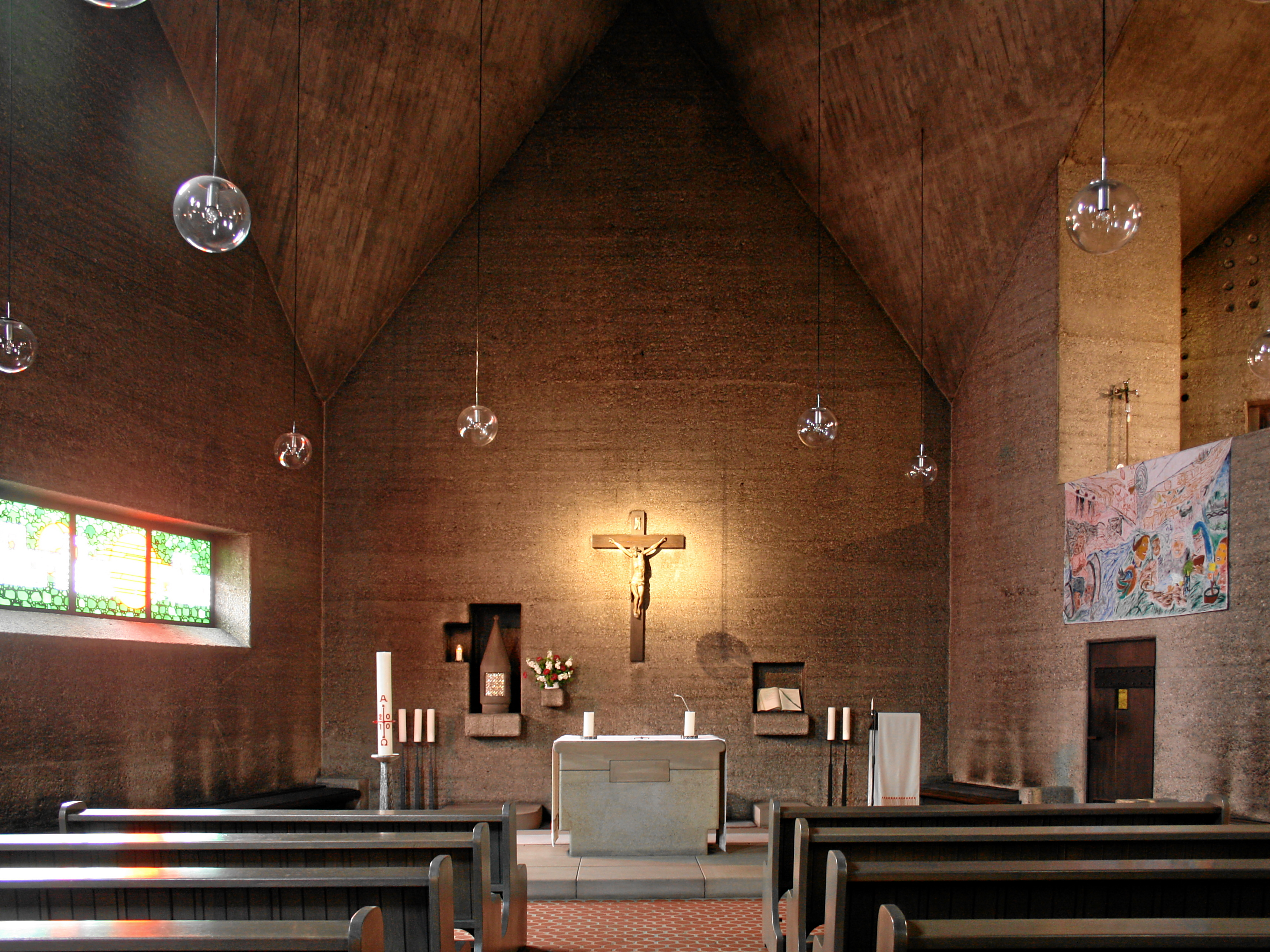 Bergisch-Gladbach-Refrath, Germany. Chapel in Bethanien children's village, interior view.